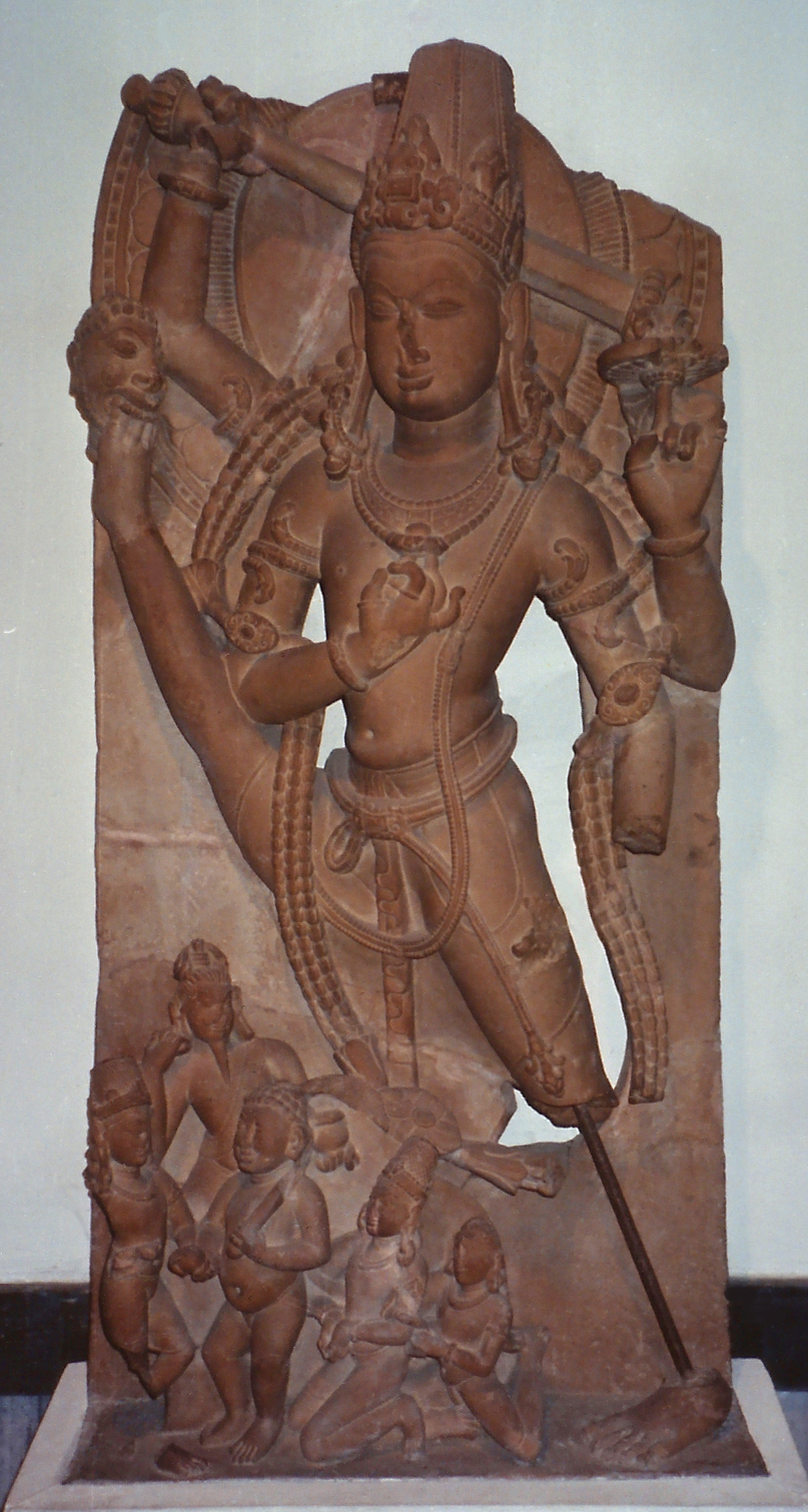 Vishnu Trivikrama. Pratihara, 11th century, from Kashipur. Delhi National Museum, India. In this incarnation, Vishnu measures out the universe in three giant steps.